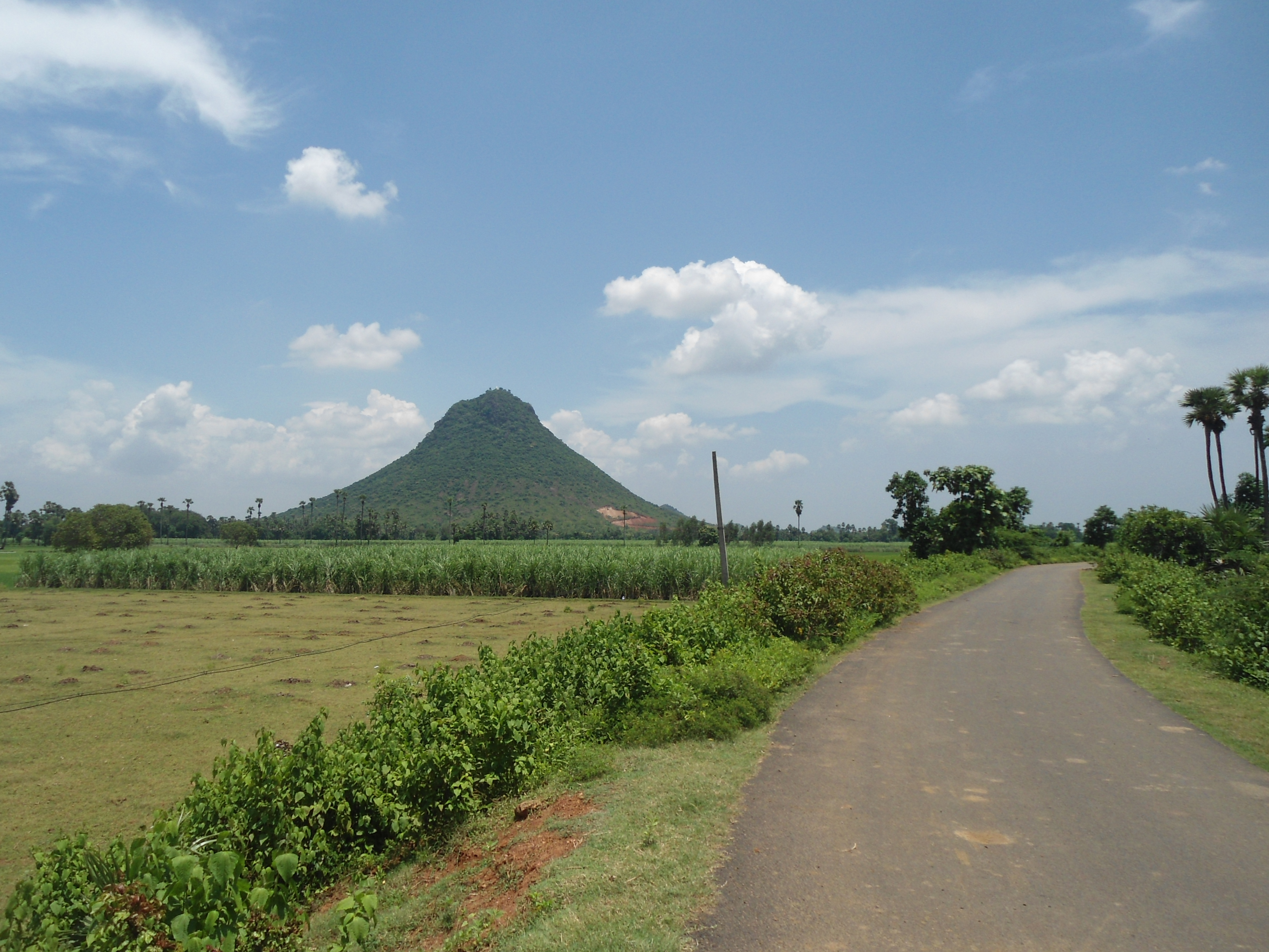 Road near Alamanda Village, Vizianagaram district, Andhra Pradesh